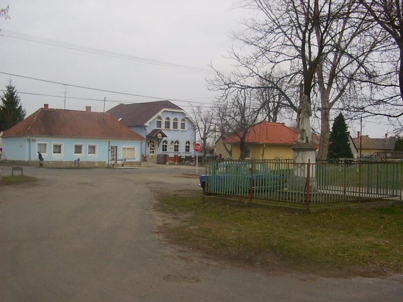 Lovászpatona, Lajos Kossuth street